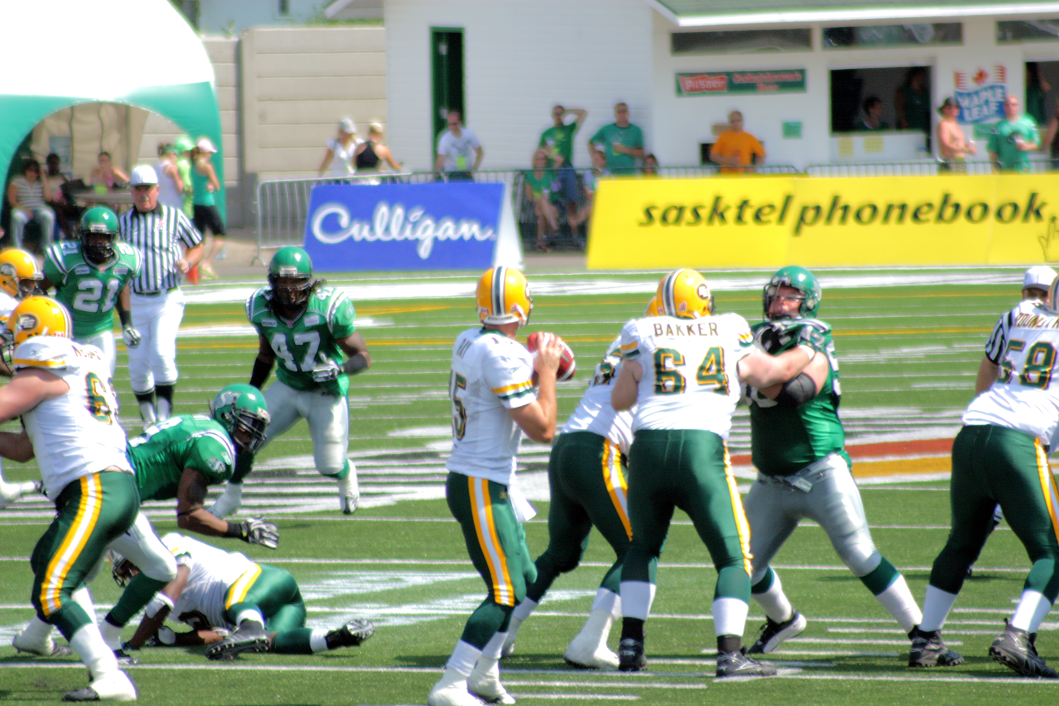 Ricky Ray dropping back to pass. Edmonton Eskimos at Saskatchewan Roughriders, Canadian Football League (CFL)